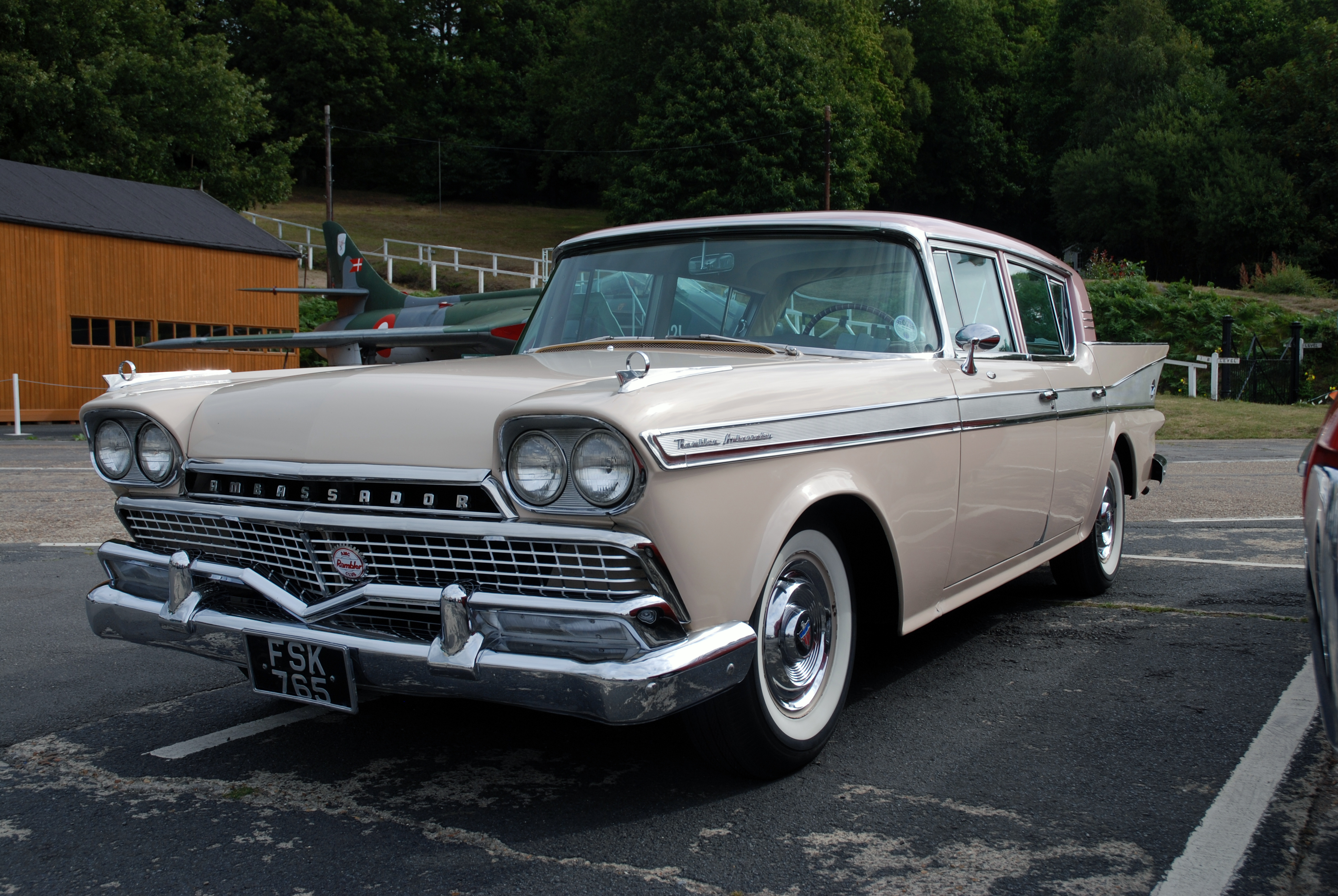 1958 Rambler Ambassador four-door sedan (built by American Motors Corporation) at the Brooklands Museum in Weybridge, Surrey, Sep. 2009